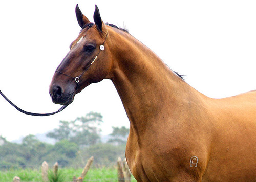 Here you can see the the convex nose of the Campolina very well.